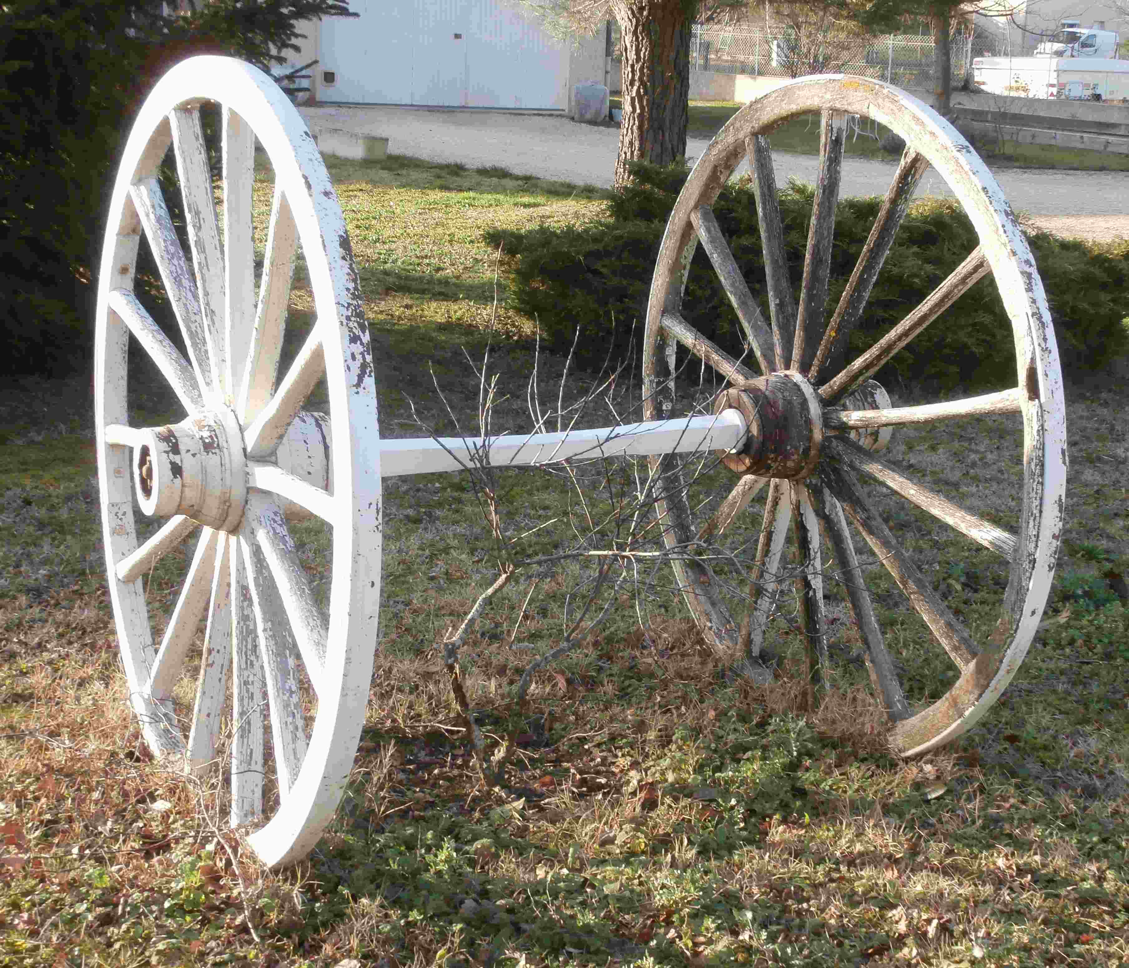 Old cartwheel